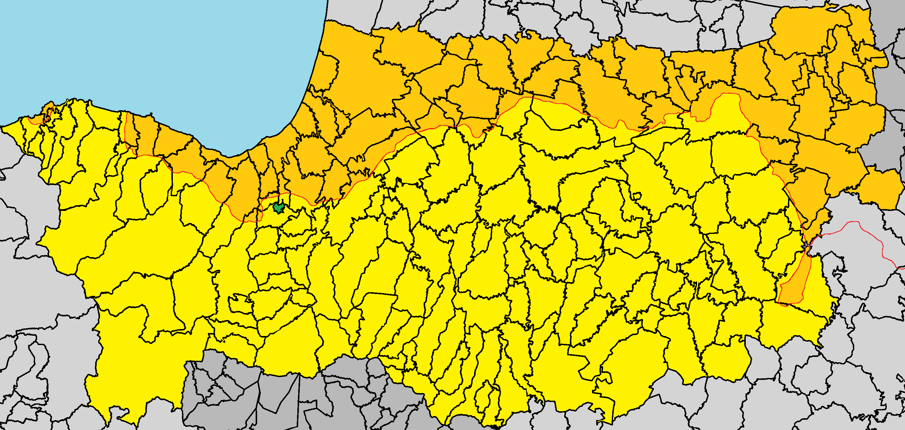 Skouriotissa in Nicosia District.